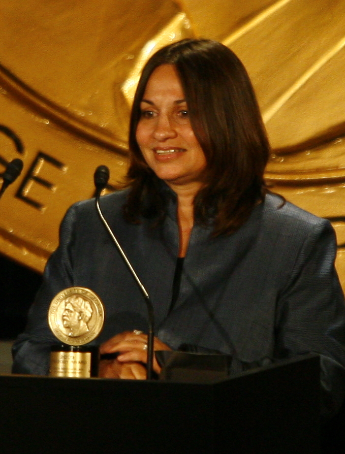 69th Annual Peabody Awards Luncheon Waldorf=Astoria Hotel New York, NY USA May 17, 2010